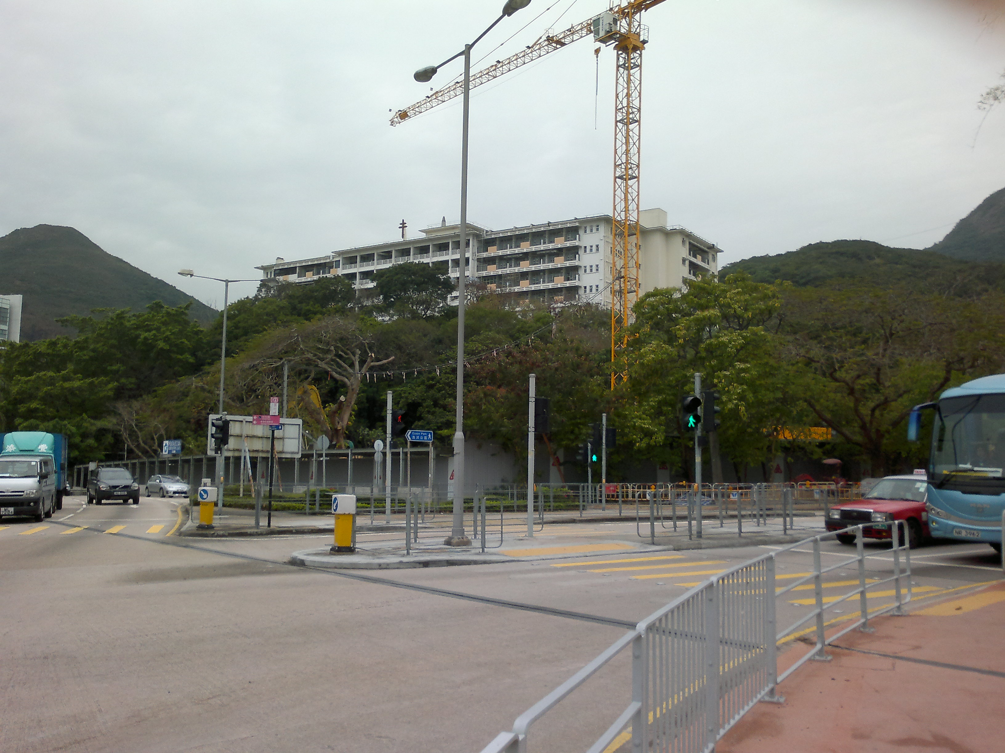 Grantham Hospital